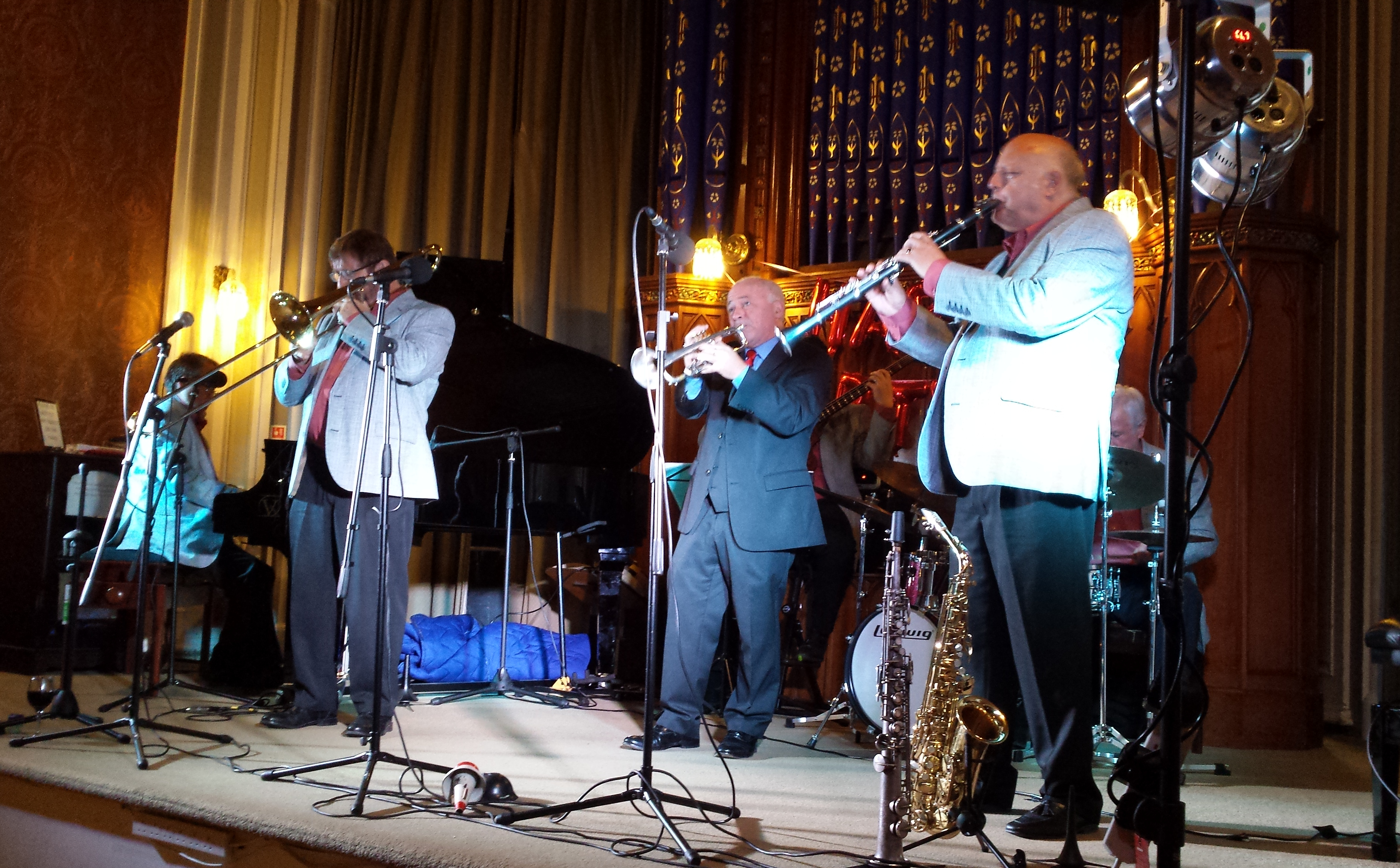 Pete Allen Jazz Band in Music Room, Sidholme Hotel, Sidmouth